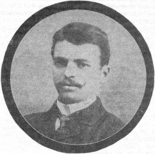 portrait of Georgi Sugarev